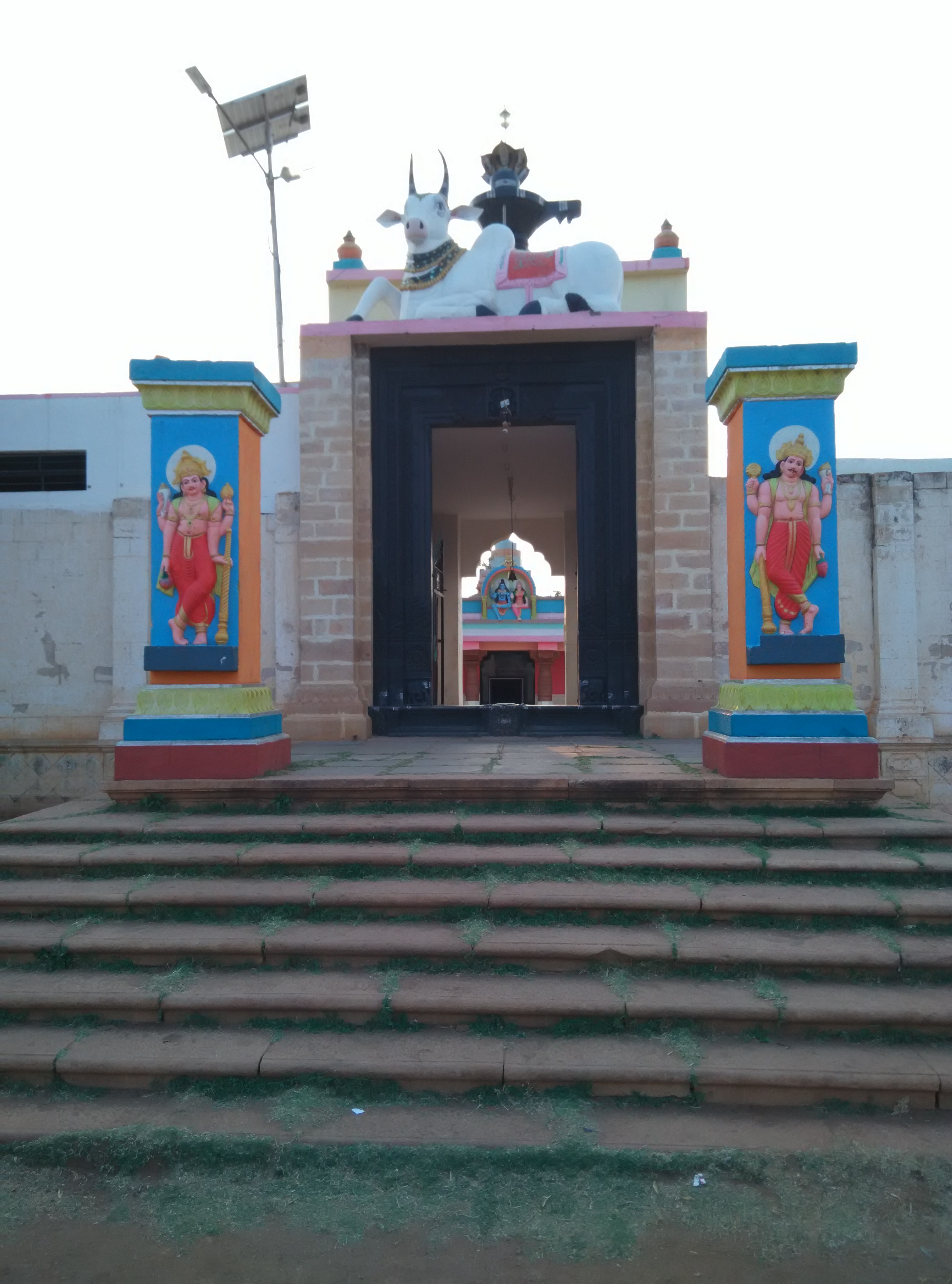 This is the Entrance Arch of Sri Someshwara Temple Kotumachagi